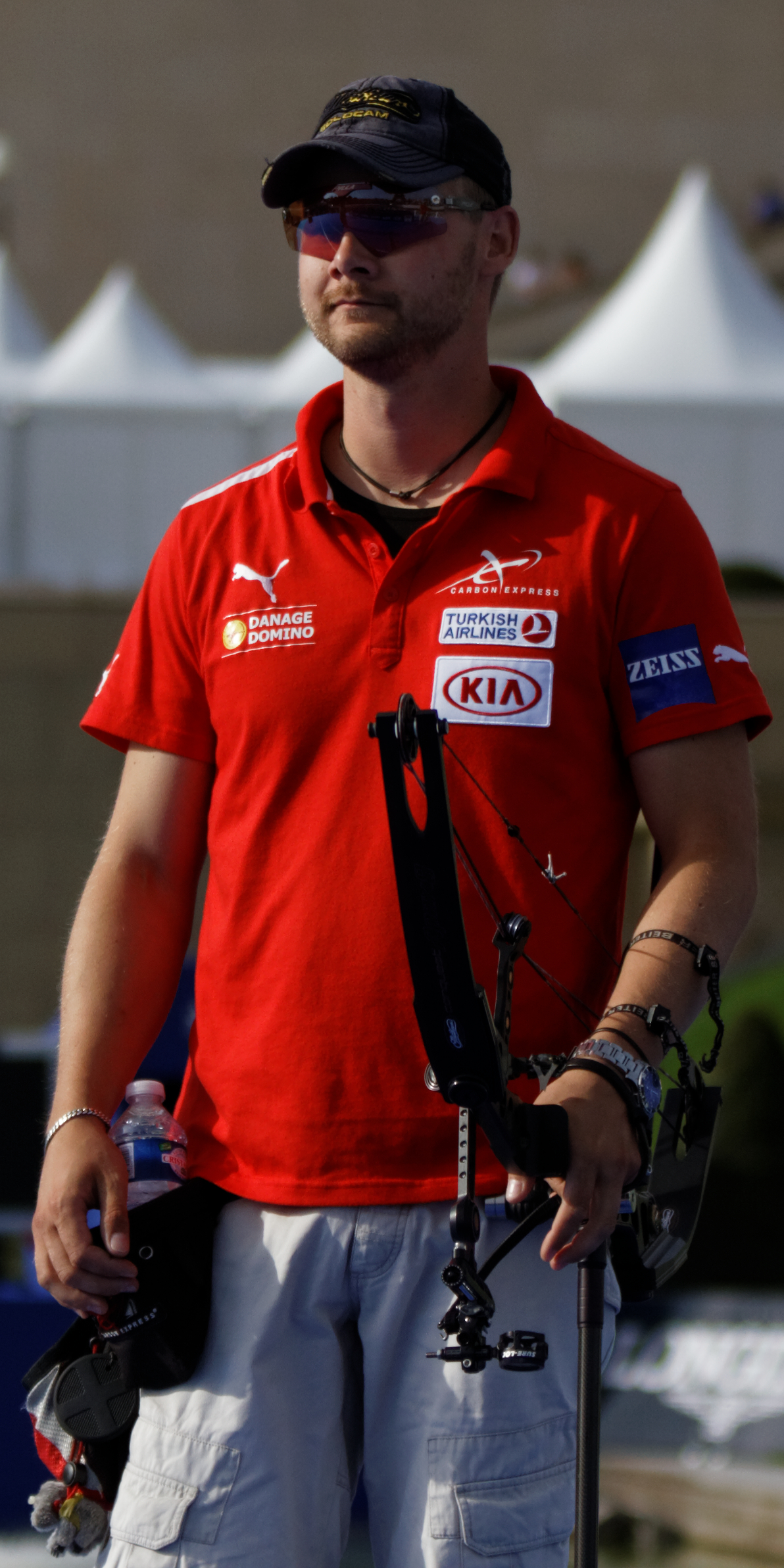 2013 FITA Archery World Cup, Paris, France. Men's individual compound final.